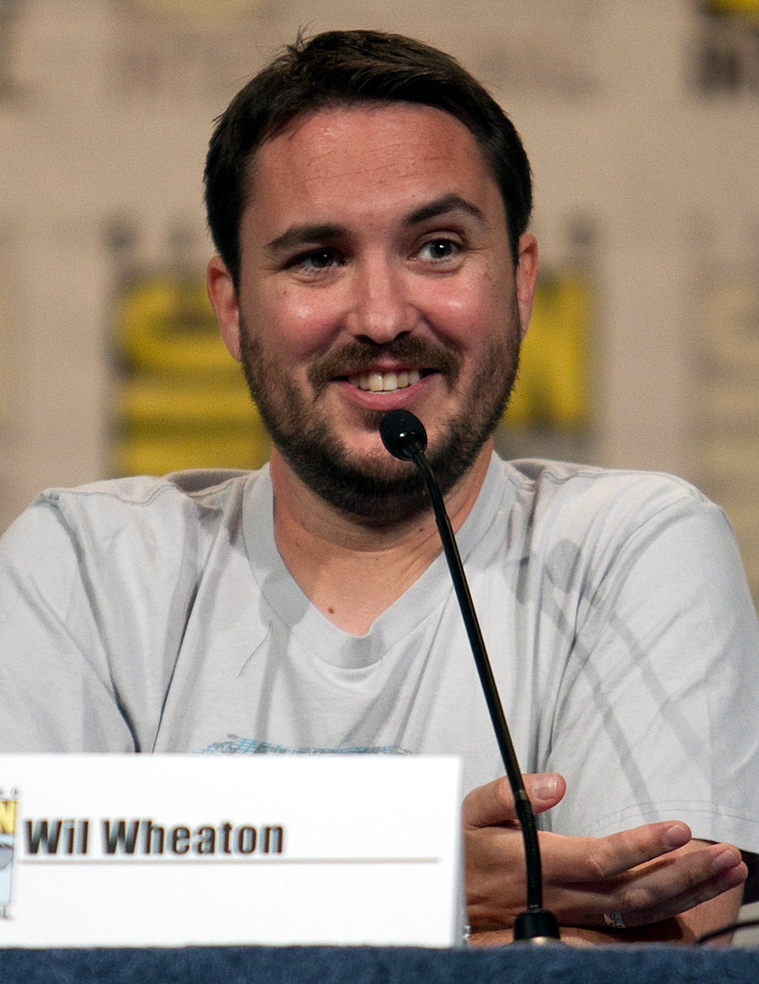 Wil Wheaton at a San Diego Comic-Con panel for The Guild in July 2010.